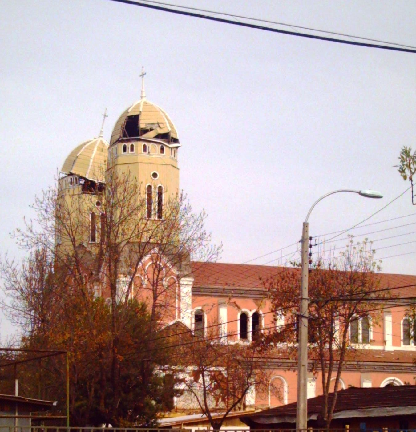 San Alfonso Church of Cauquenes (Chile)